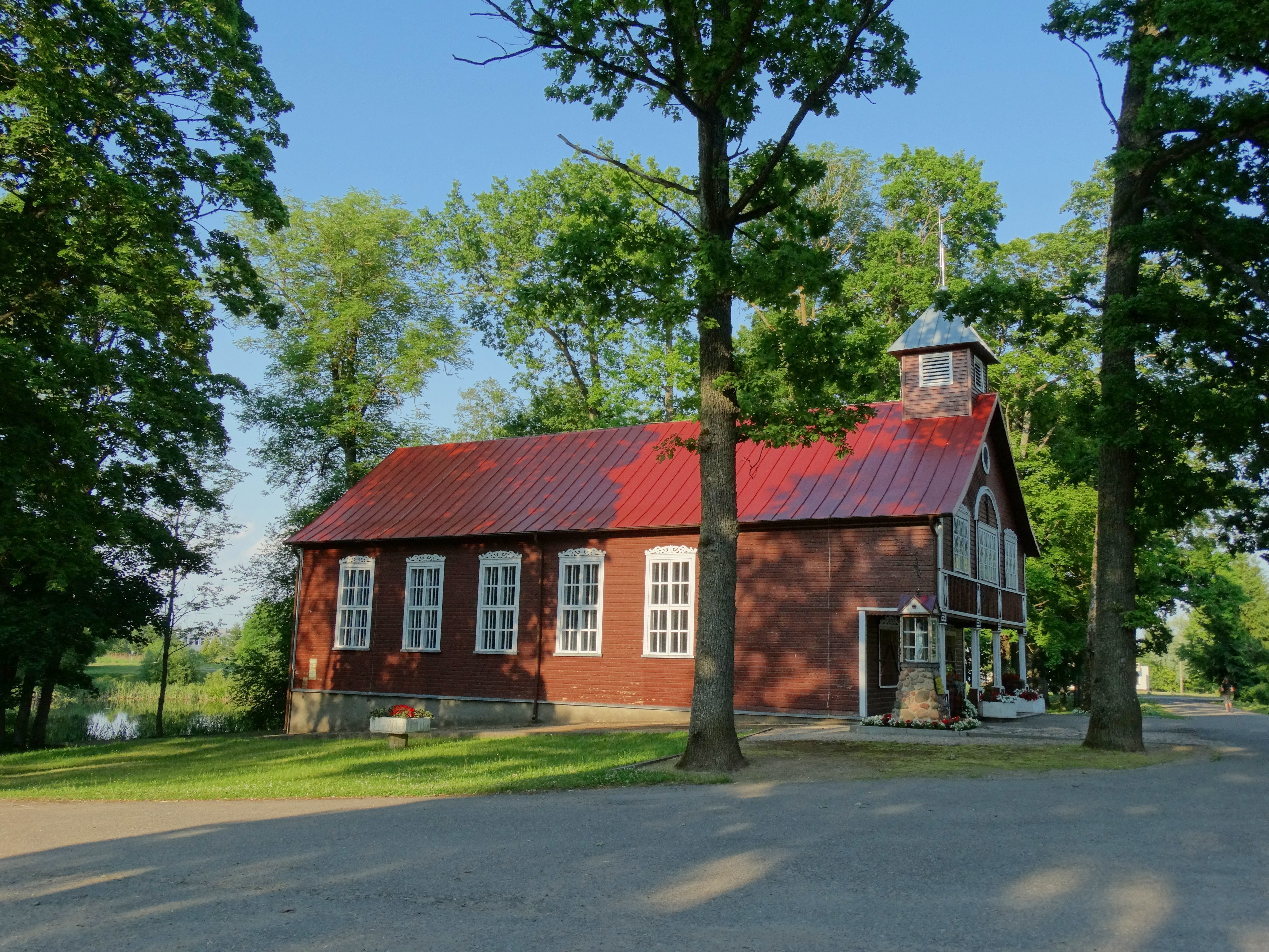 St. Peter and St. Paul's Church in Degaičiai, Telšiai district, Lithuania